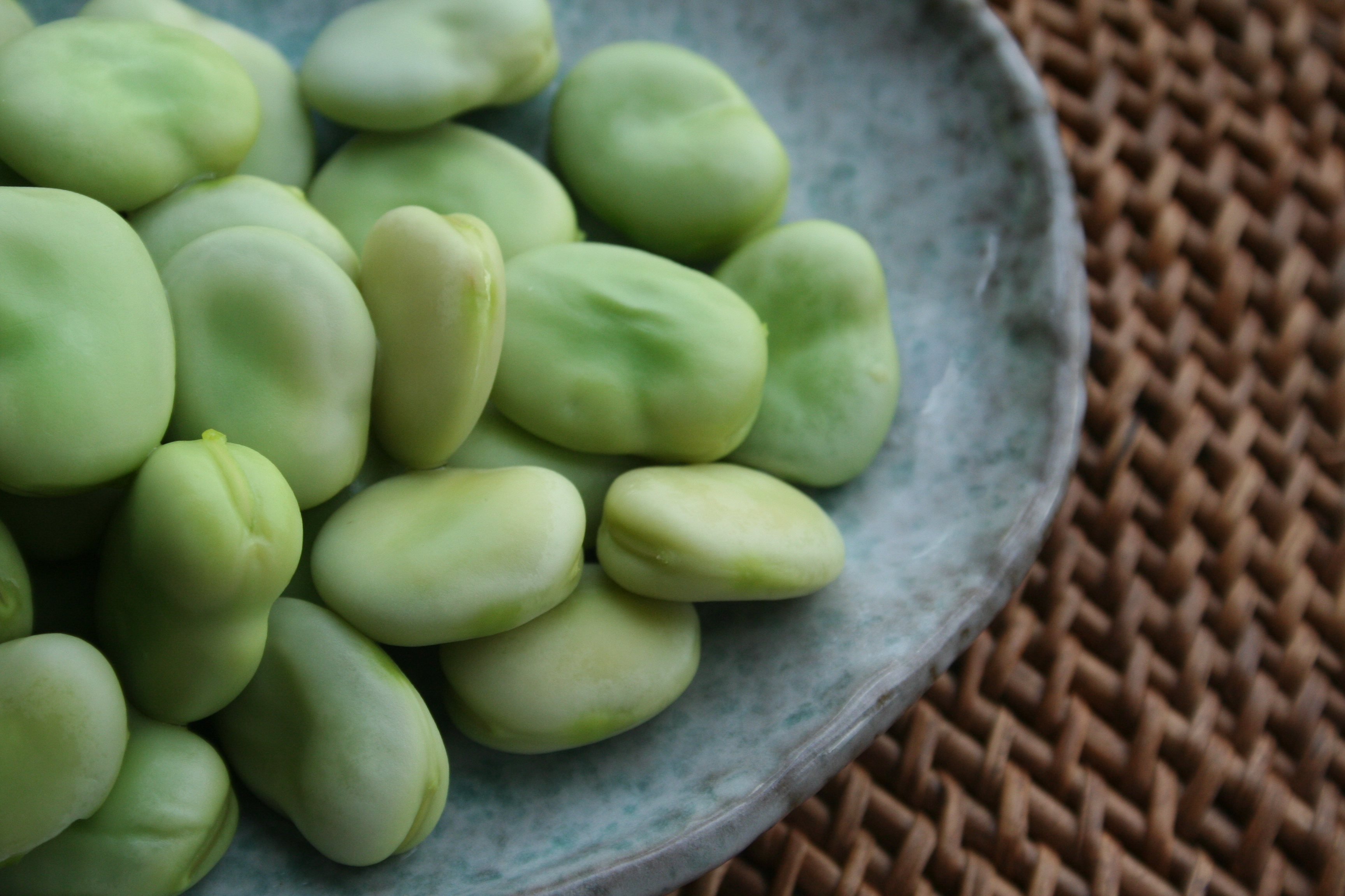 Broad beans, shelled and lightly cooked. These are often eaten with beer.